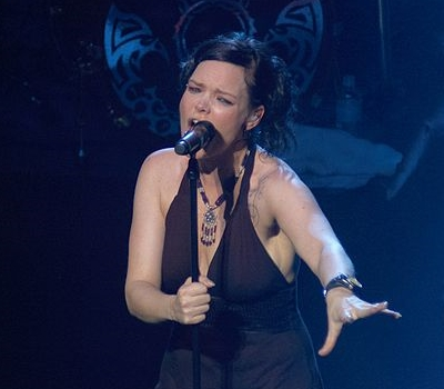 Anette Olzon, Nightwish concert at The Palais, Melbourne.